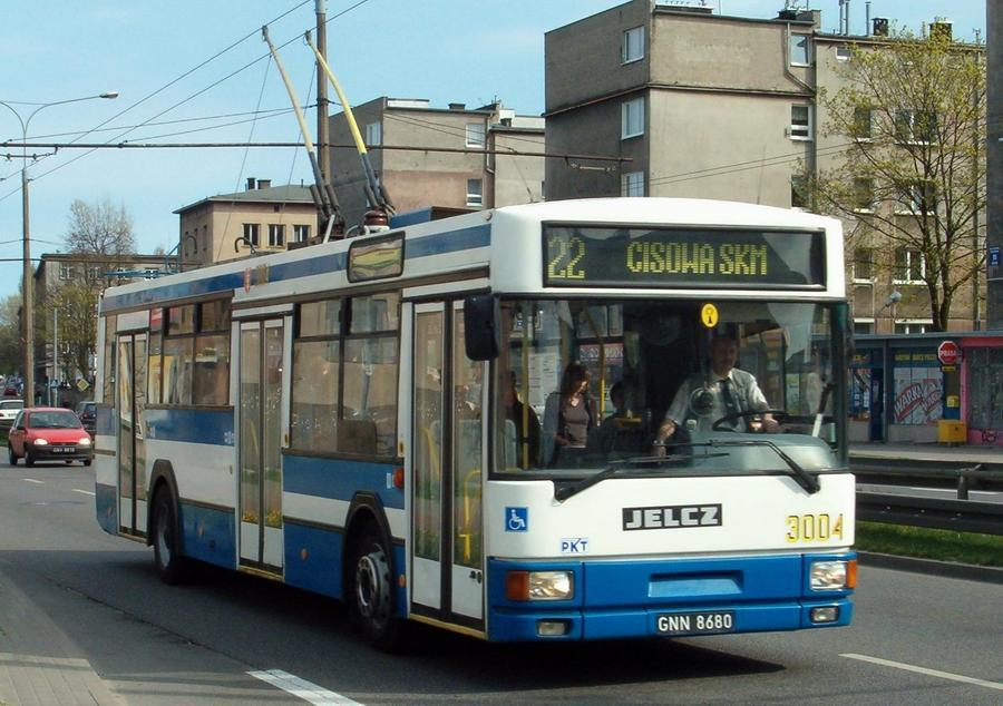 Jelcz M121E trolleybus (#3004) in Gdynia, Poland. Built 1999.